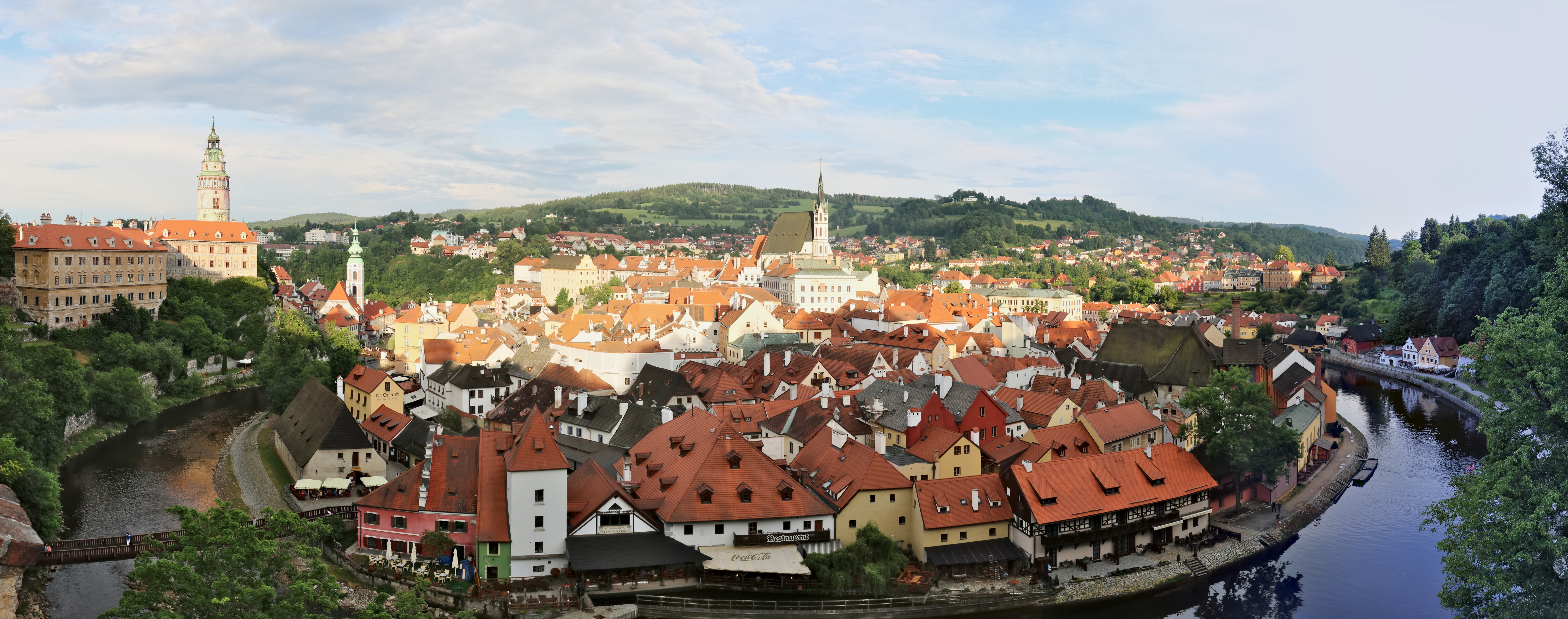 Cesky Krumlow Oldtown and Castle